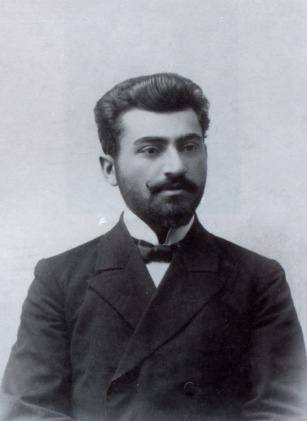 Minister of Finance and Minister of Welfare (Public Assistance) Khachatur Karchikyan.